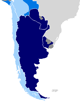 Map of countries of Southern Cone with voseo phenomena: primary spoken and written form primary spoken, but not in written form 'Voseo' coexists with 'tuteo' Spanish-speaking country with voseo non-existent